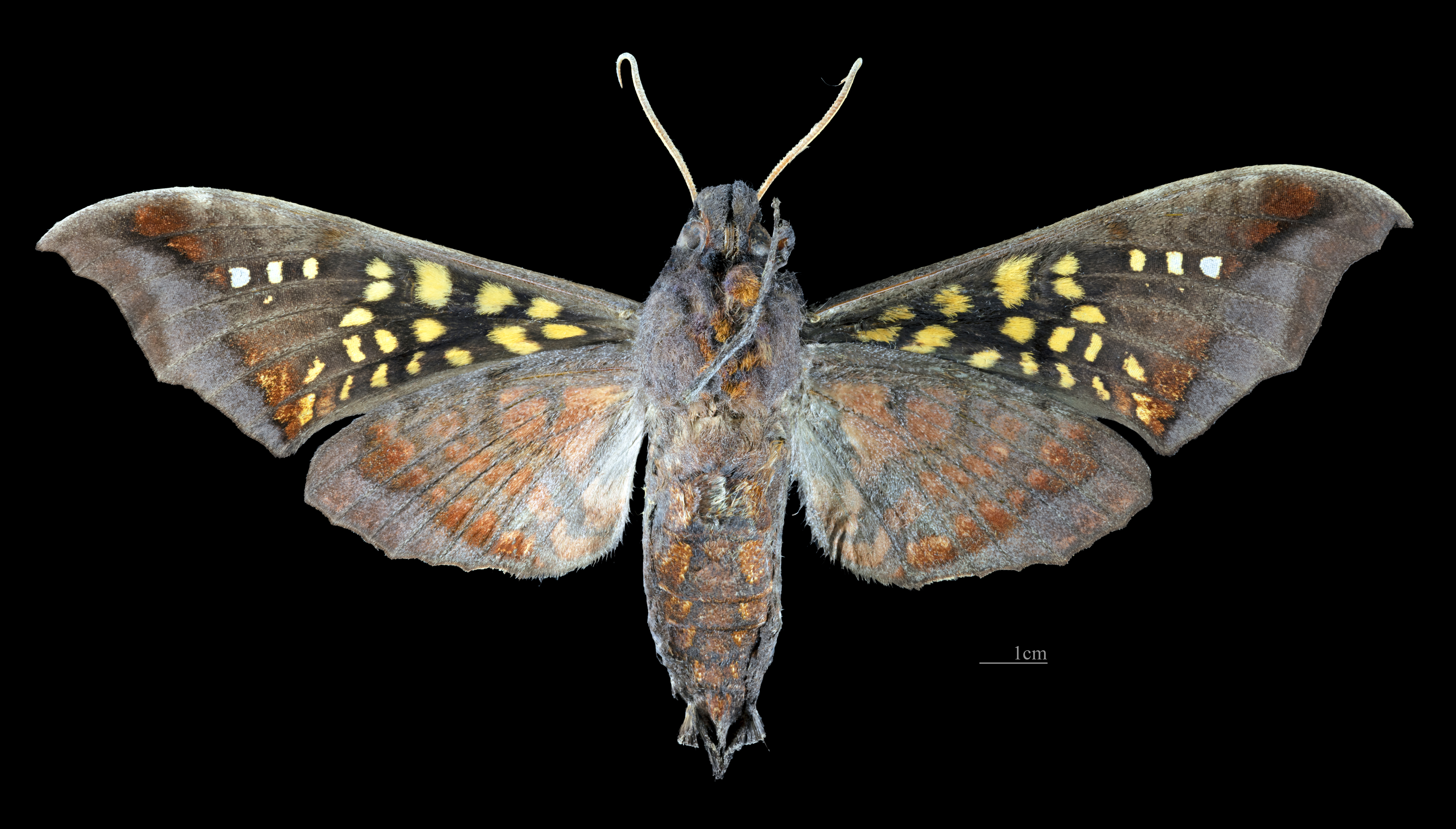 Nyceryx hyposticta - △ Ventral side Collection of the Mathematician Laurent Schwartz